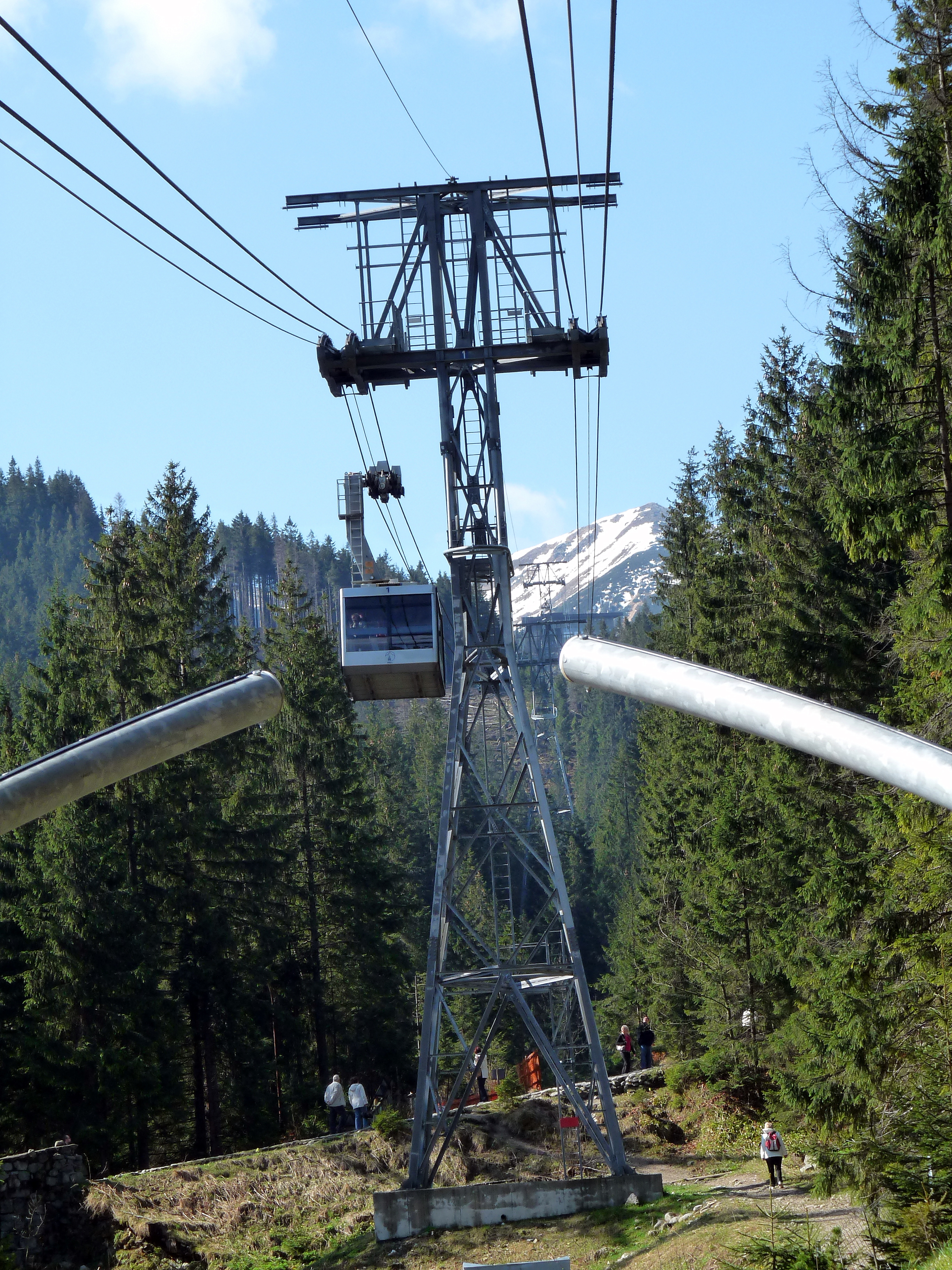 Kolej linowa podjeżdżąca do stacji Kuźnice